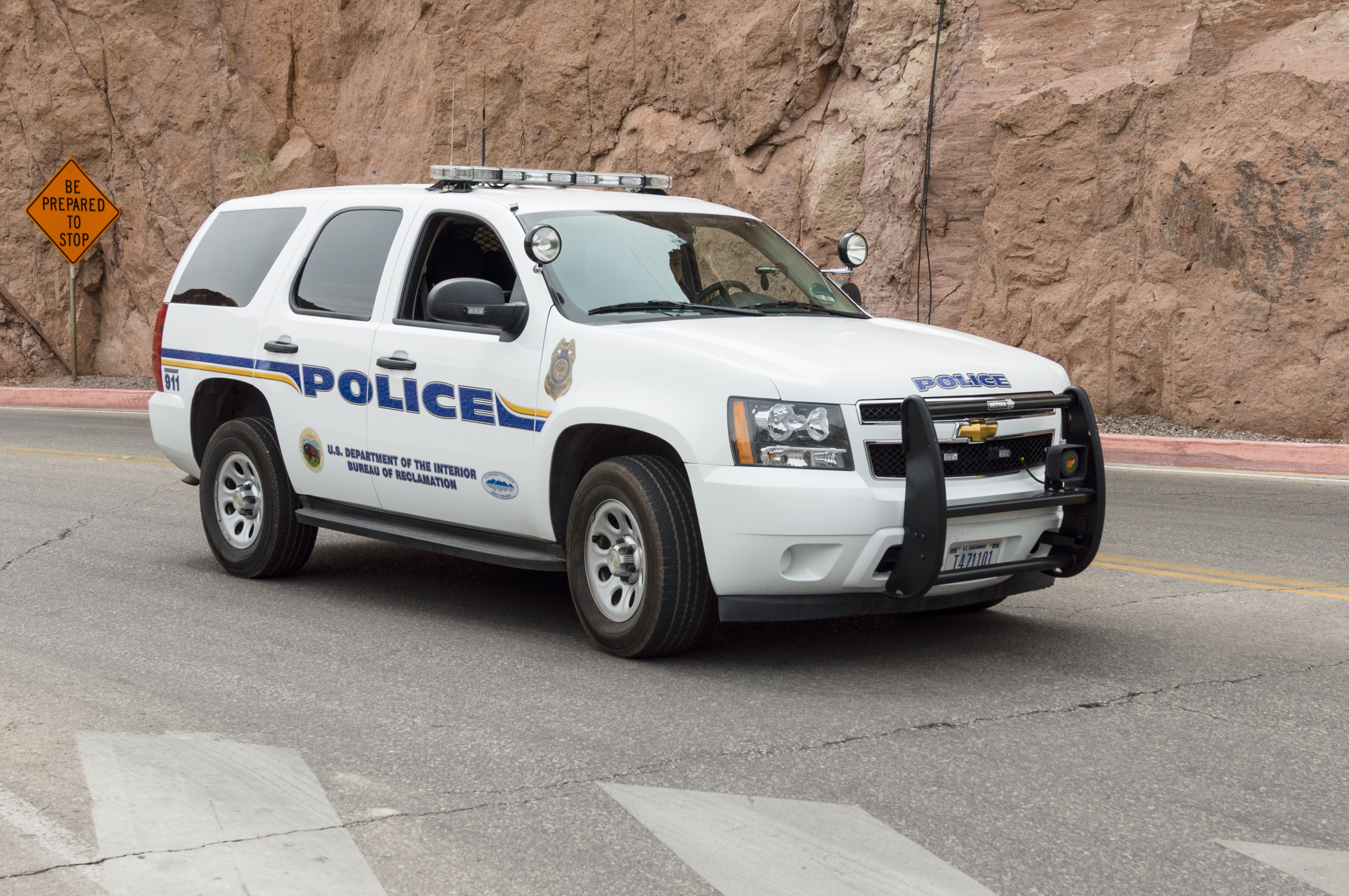 Police Chevrolet Tachoe (GMT921) passing Hoover Dam, Arizona, USA.